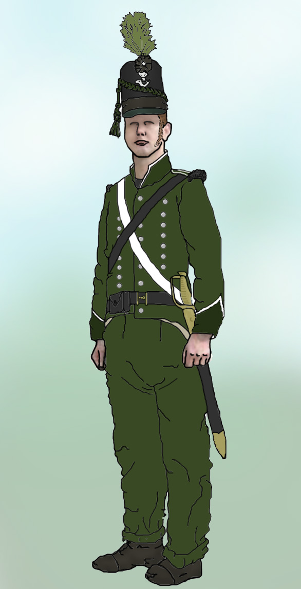 A trooper from the 95th Rifles regiment, British Army, 1815.